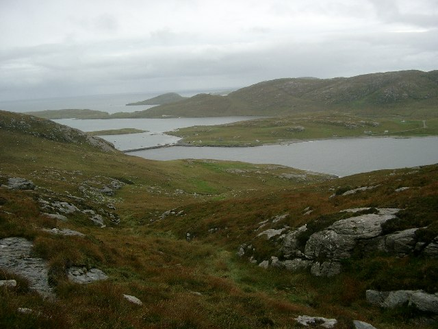 Caolas Bhatarsaigh (Vatersay Sound) and the Causeway. This shot was taken just before a rain storm as we descended from near the summit of Beinn Tangabhal.